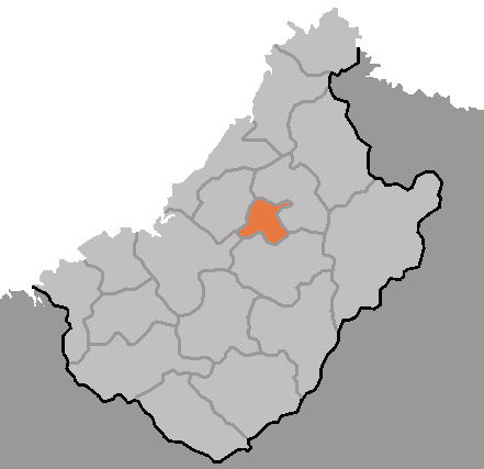 Map of Kanggye, Chagang-do, DPRK, 2006